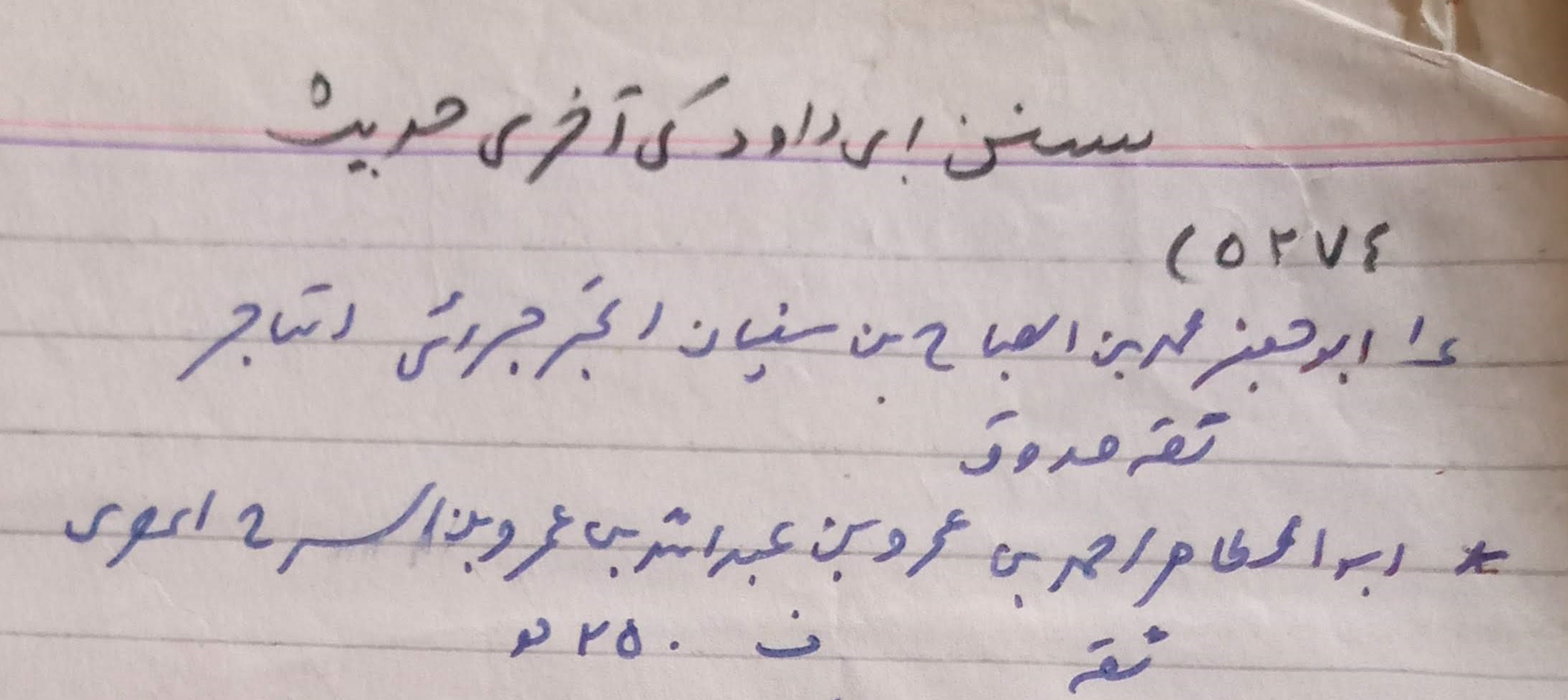 Hand writing of Zubair Ali Zai